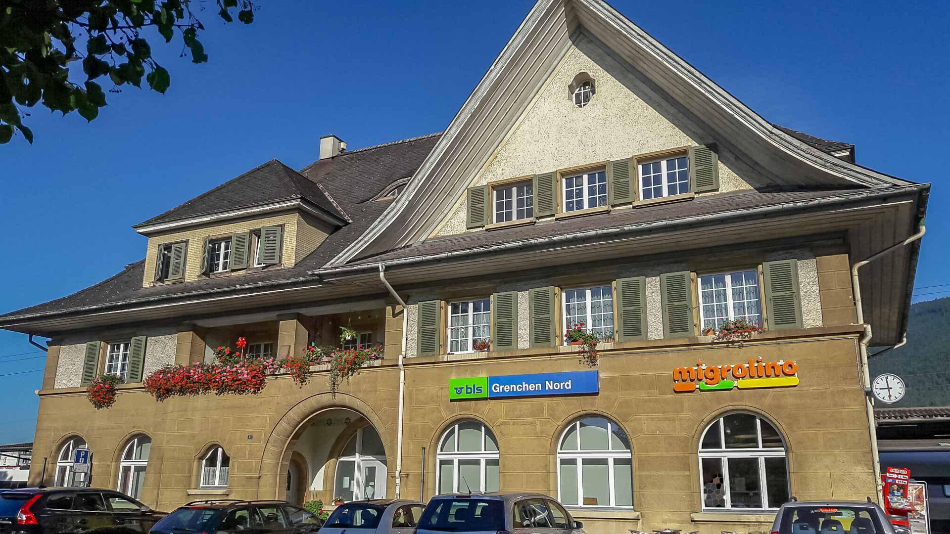 Grenchen Nord railway station in Grenchen, Solothurn, Switzerland.